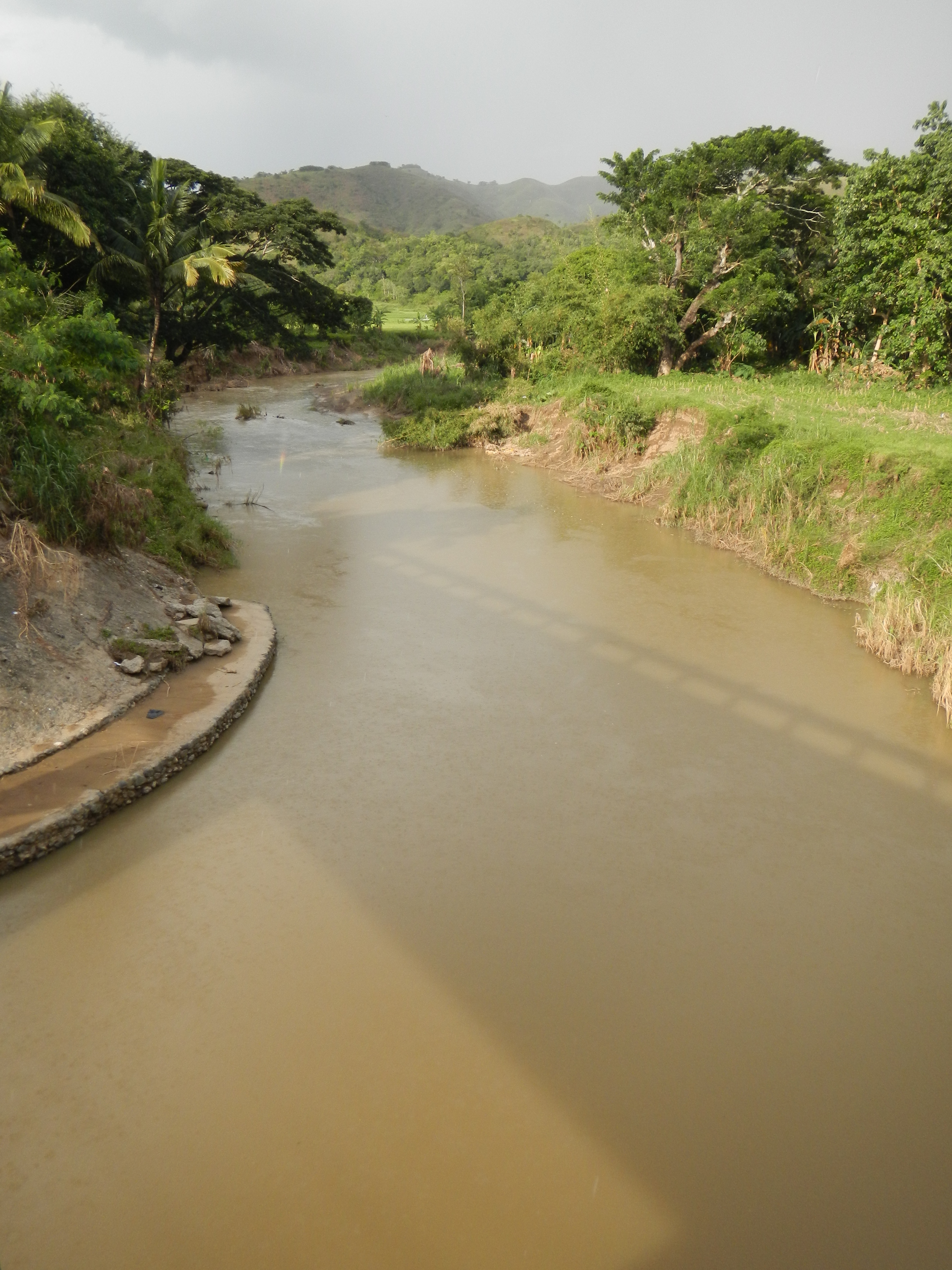 UploadWizard photos -- (General description, 3-dimension angle by angle photography of this town, church & landmarks) --Dupax del Norte, Nueva Vizcaya[1] - Scenery and landmarks --- after District Highway Boundary S00879LZ: DM Junction: Malasin Road KO 252+764, the Welcome Sign Boundary of Barangay Lamo to Barangay Malasin and neighbor, Bambang, Nueva Vizcaya - Lamo Bridge KO 252-595, Dupax del Norte National High School, --- Dupax del Norte, Nueva Vizcaya[2] [3] Land Area: 347.30 km² ZIP Code: 3706 a 3rd class municipality in the province of Nueva Vizcaya, [4] Philippines; the latest census, it has a population of 23,196 people in 4,771 households; politically subdivided into 15 barangays: Coordinates: 16°10'52"N 121°12'8"E [5] [6] Coordinates: 16°20'4"N 121°6'33"E Website & the --- ---- the eponymous Cagayan River [7] (known as the Rio Grande de Cagayan, is the longest and largest river in the Philippines, located in the Cagayan Valley region in northeastern part of Luzon Island and traverses the provinces of Nueva Vizcaya, Quirino, Isabela and Cagayan) & P21 Million bridge Santa Fe Bridge B0 125 LZ K0 214+ 995 L:25.00 LN M going to Cagayan Valley- Roxas, Tabuk, Tuguegarao, Barangay Poblacion, Santa Fe, Nueva Vizcaya [8] [9] located along Daang Maharlika or Cagayan Valley Road or Pan-Philippine Highway[10] the only passageway that links the entire North East Luzon to Metro Manila and Central Luzon. Cagayan Valley [11]).